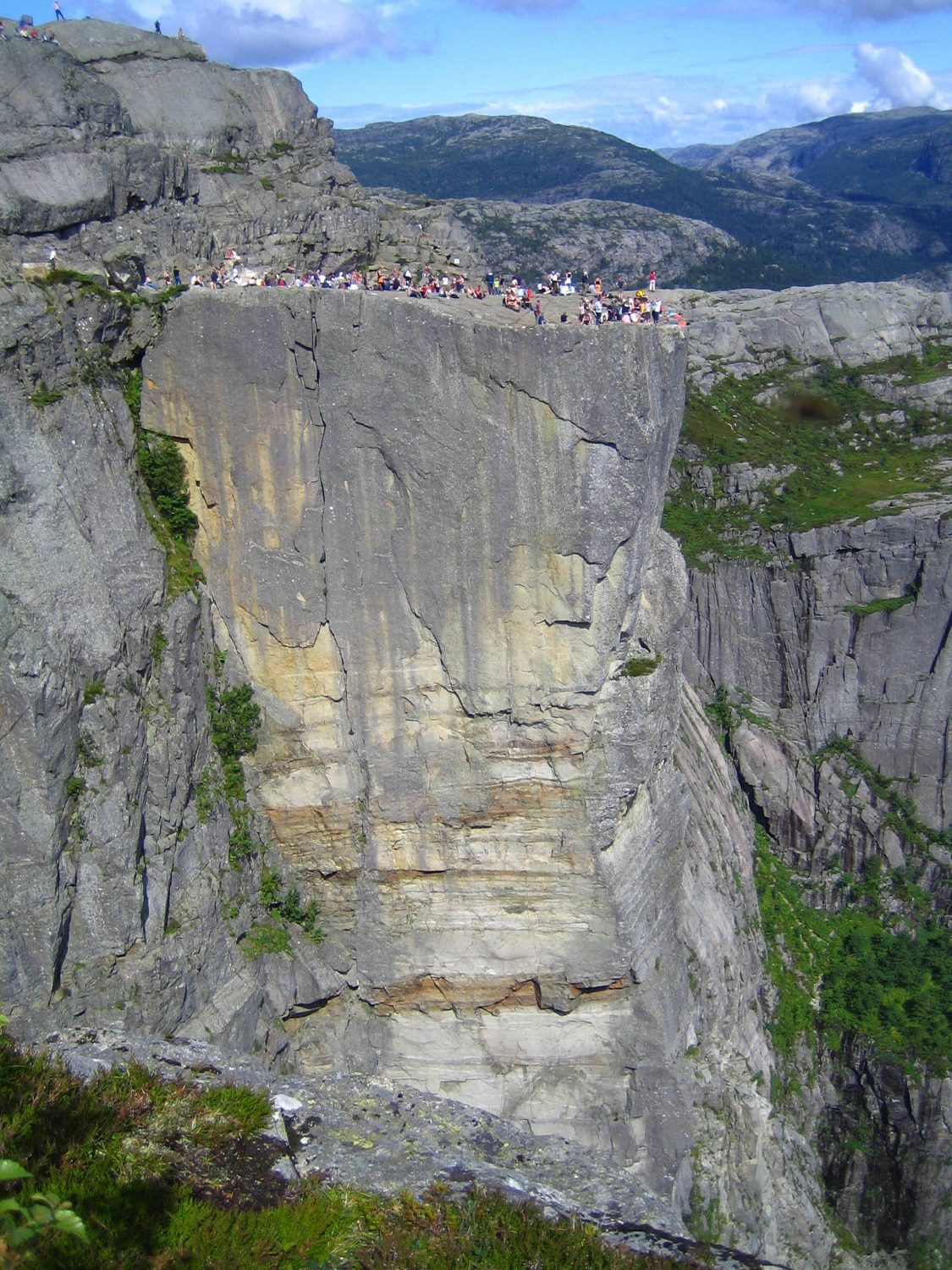 Description: Preikestolen, Norway Source: own photography Date: 2005-08-08 Author: Schue